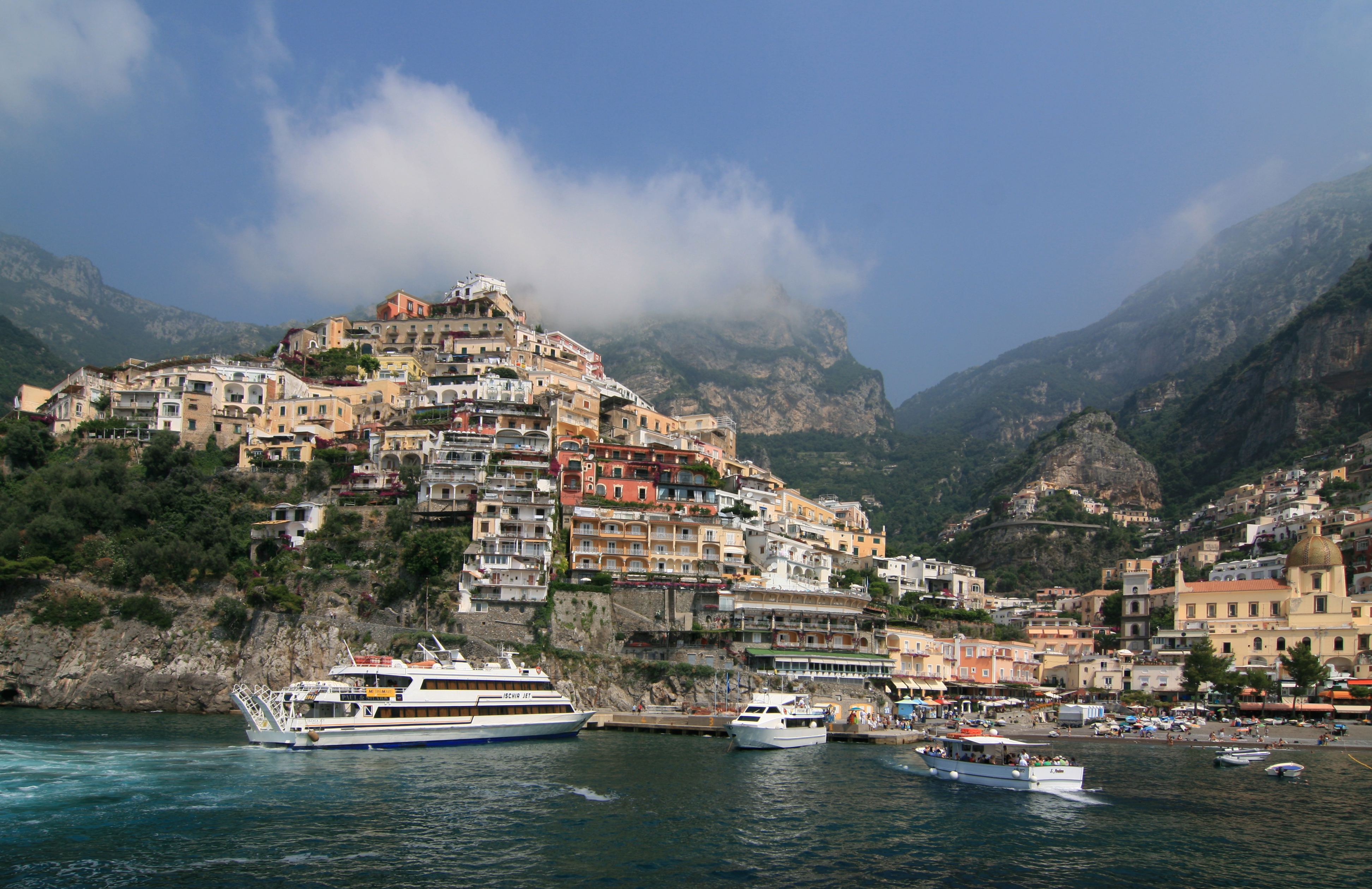 Positano, Italy.